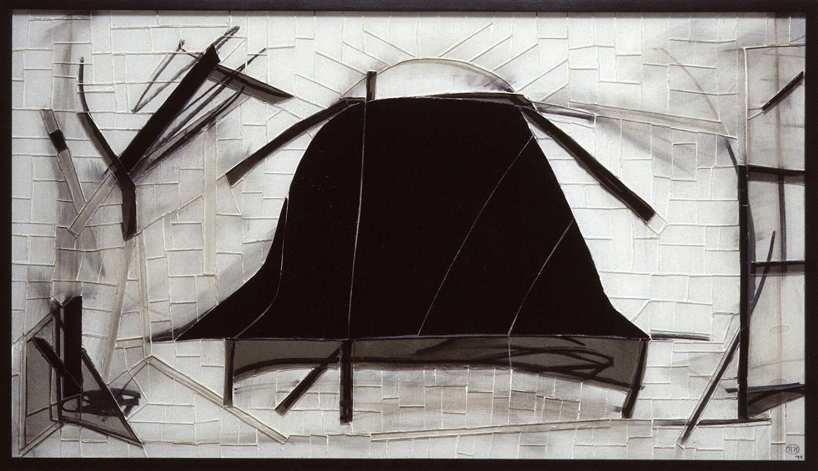 "Piano" — glass art by Robert Kehlmann (1994). Corning Museum of Glass collection, New York. Photo: Kehlmann Studio Archive, date 1995.